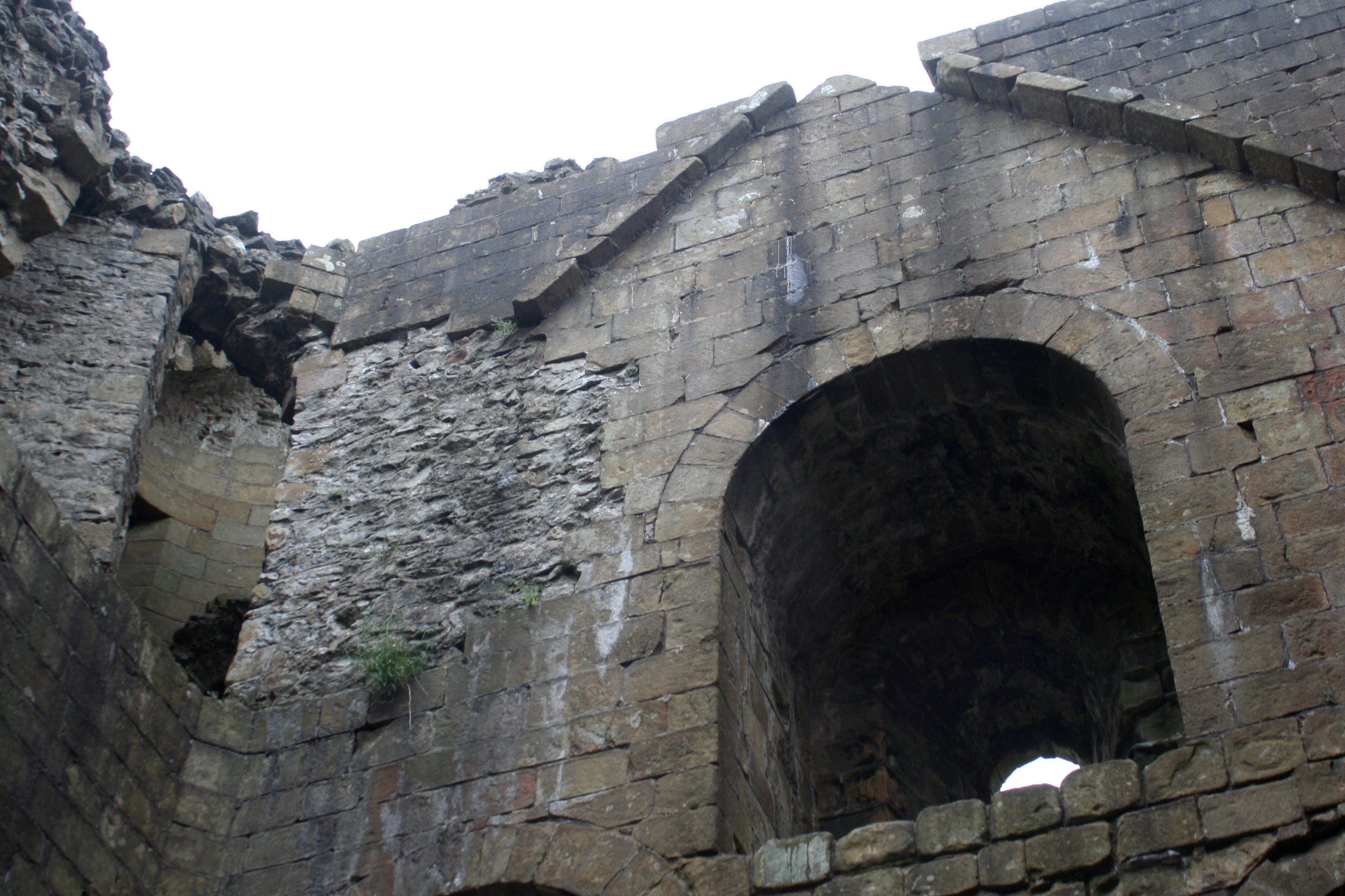 A window of the Peveril Castle keep, viewed from inside the keep.